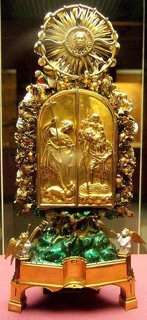 Holy Thorn Reliquary is 15th century made in Paris to house a relic of the Crown of Thorns. Since 1898, it has been in the British Museum's collection.